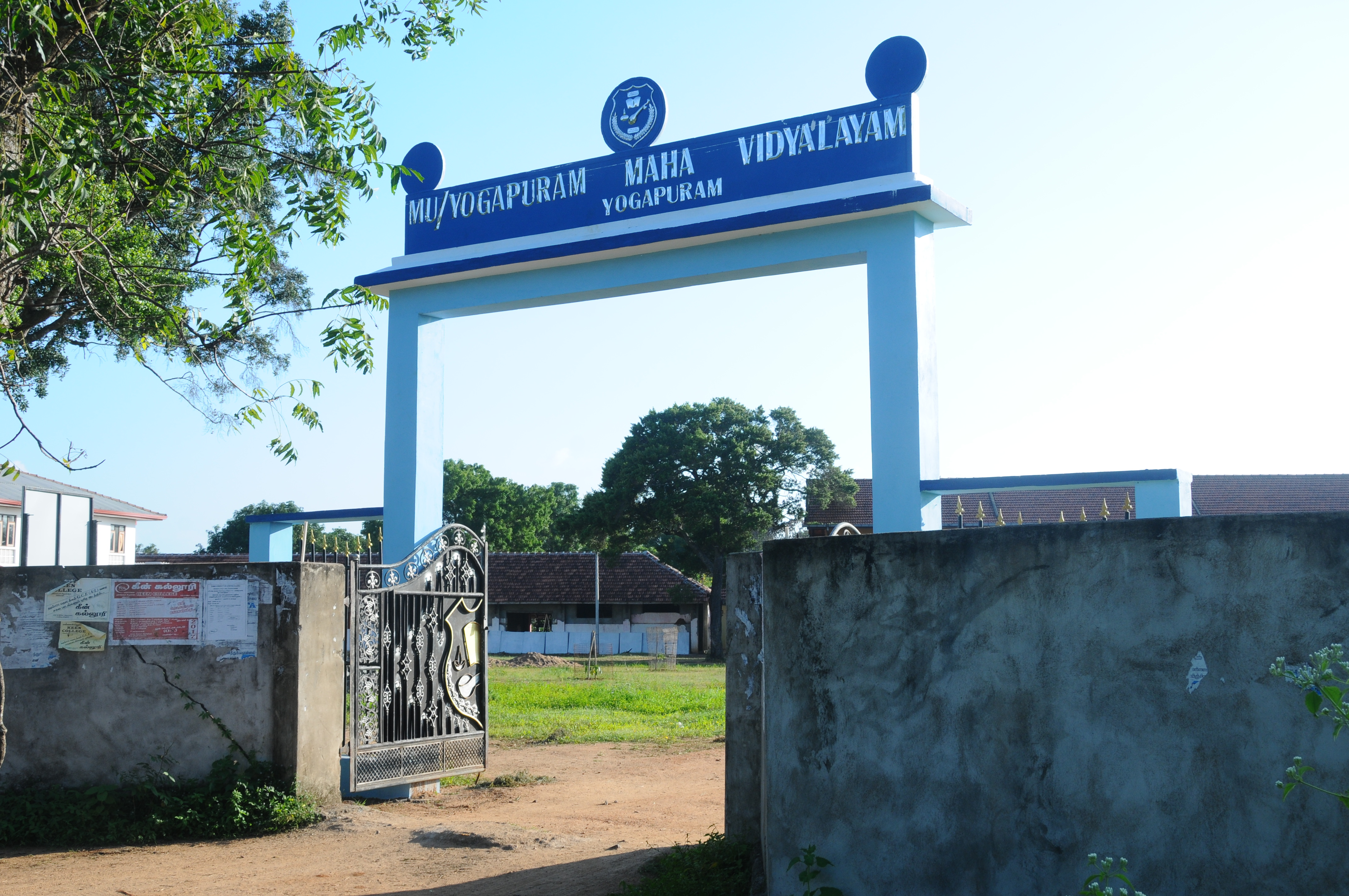 Yogapuram Maha Vidyalayam